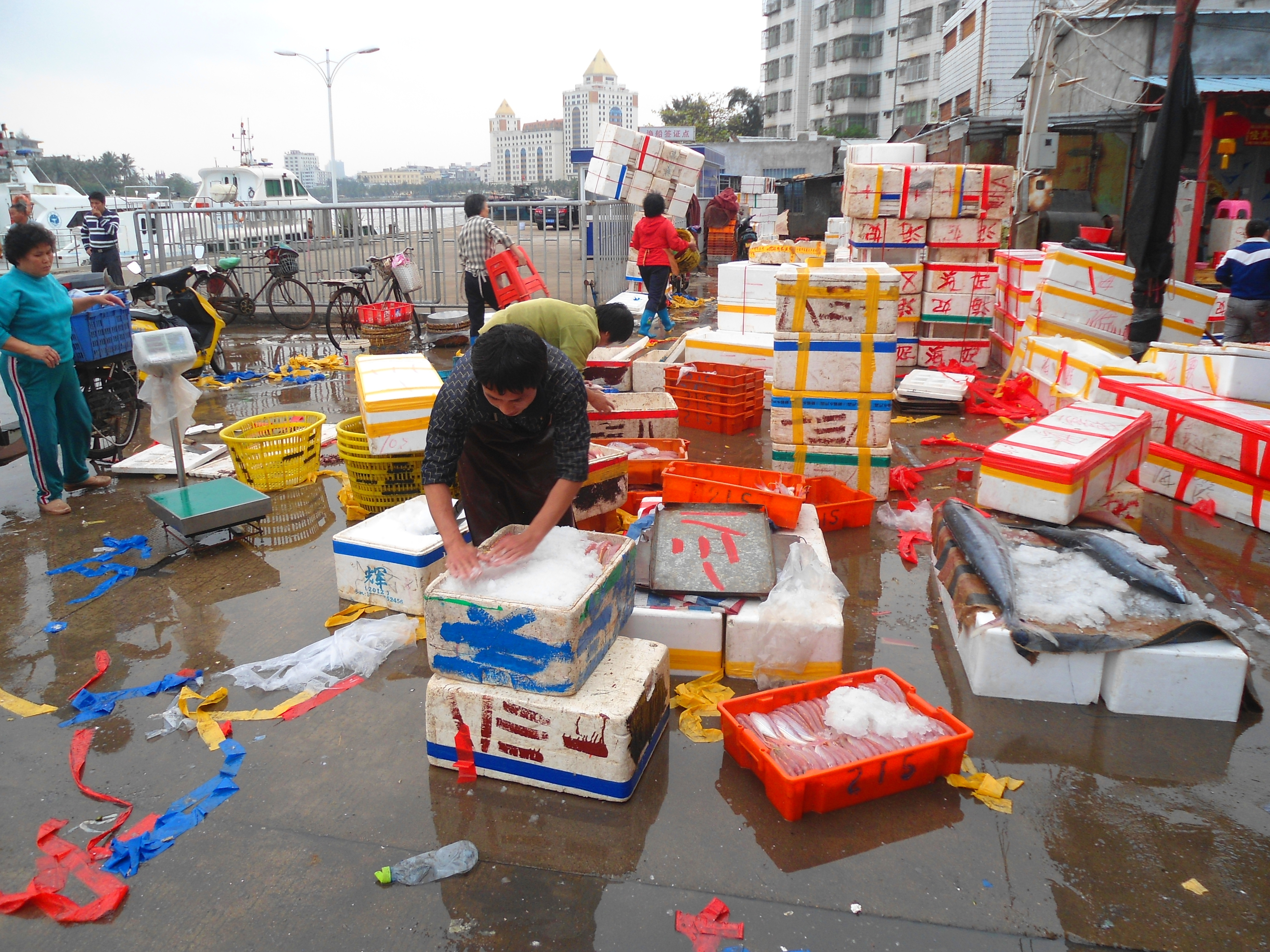 Early morning view of the wholesale fish market at Haikou New Port, Haikou, Hainan, China.